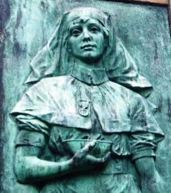 One of the bronze reliefs by Louis Frederick Roslyn on the Darwen War Memorial in Bold Venture Park, Darwen. This relief features a nurse.